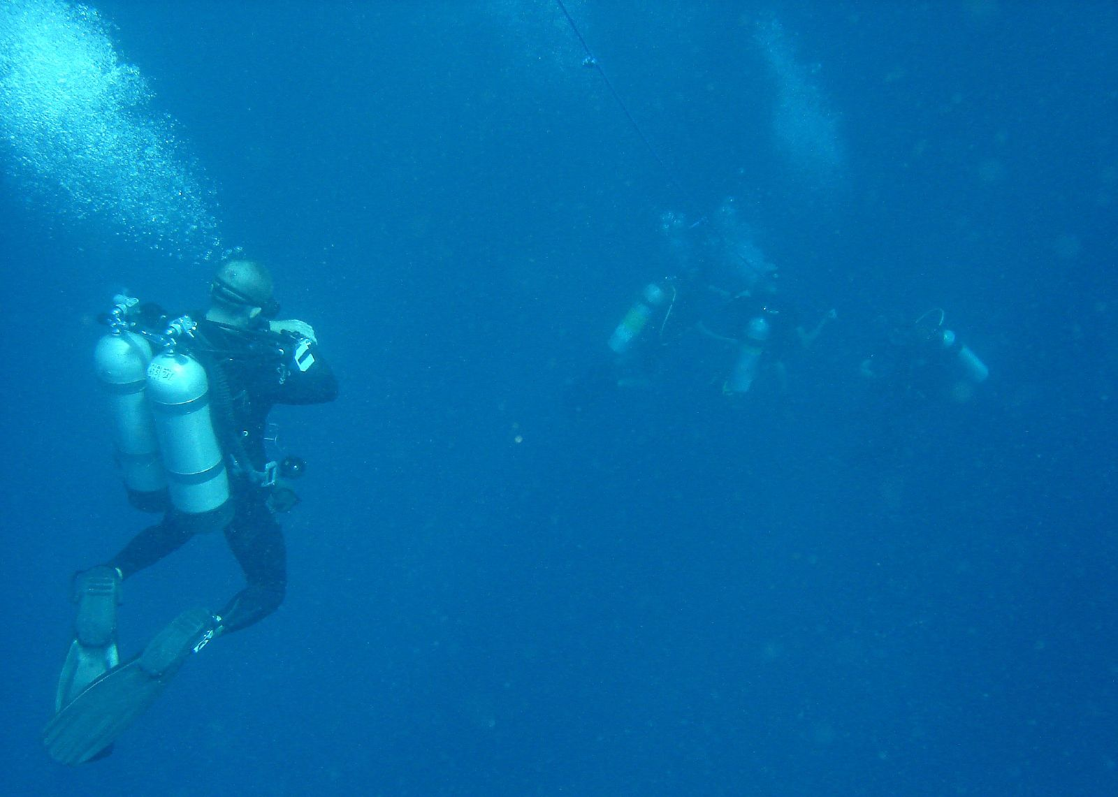 with technical diving you have to do decompression stops to allow nitrogen in blood to disolve or else. this dive required four: 24, 14, 6, and 4.5 meters